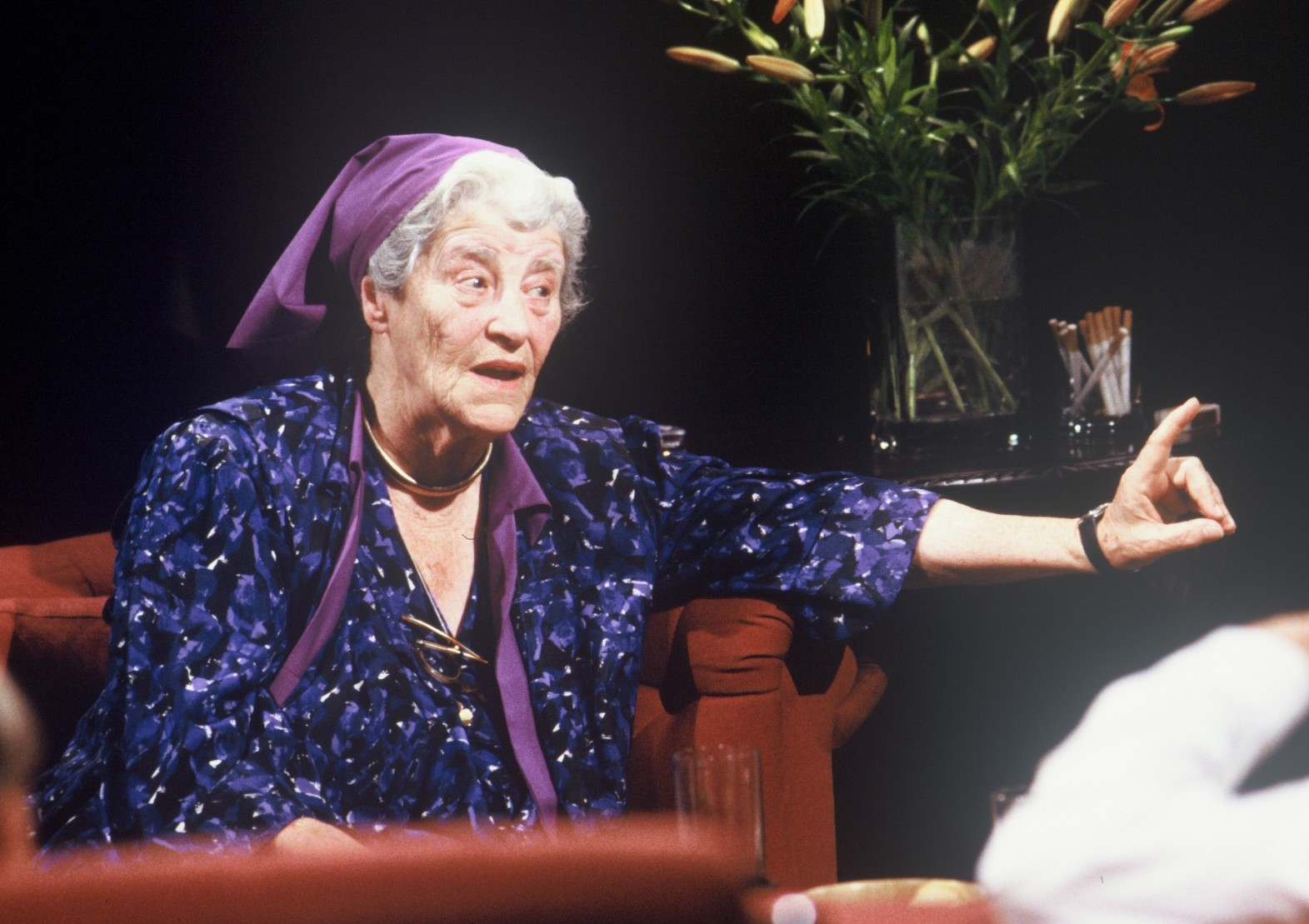 Miriam Rothschild appearing on After Dark on 2 July 1988. Other guests included Katie Boyle and Frank Evans.